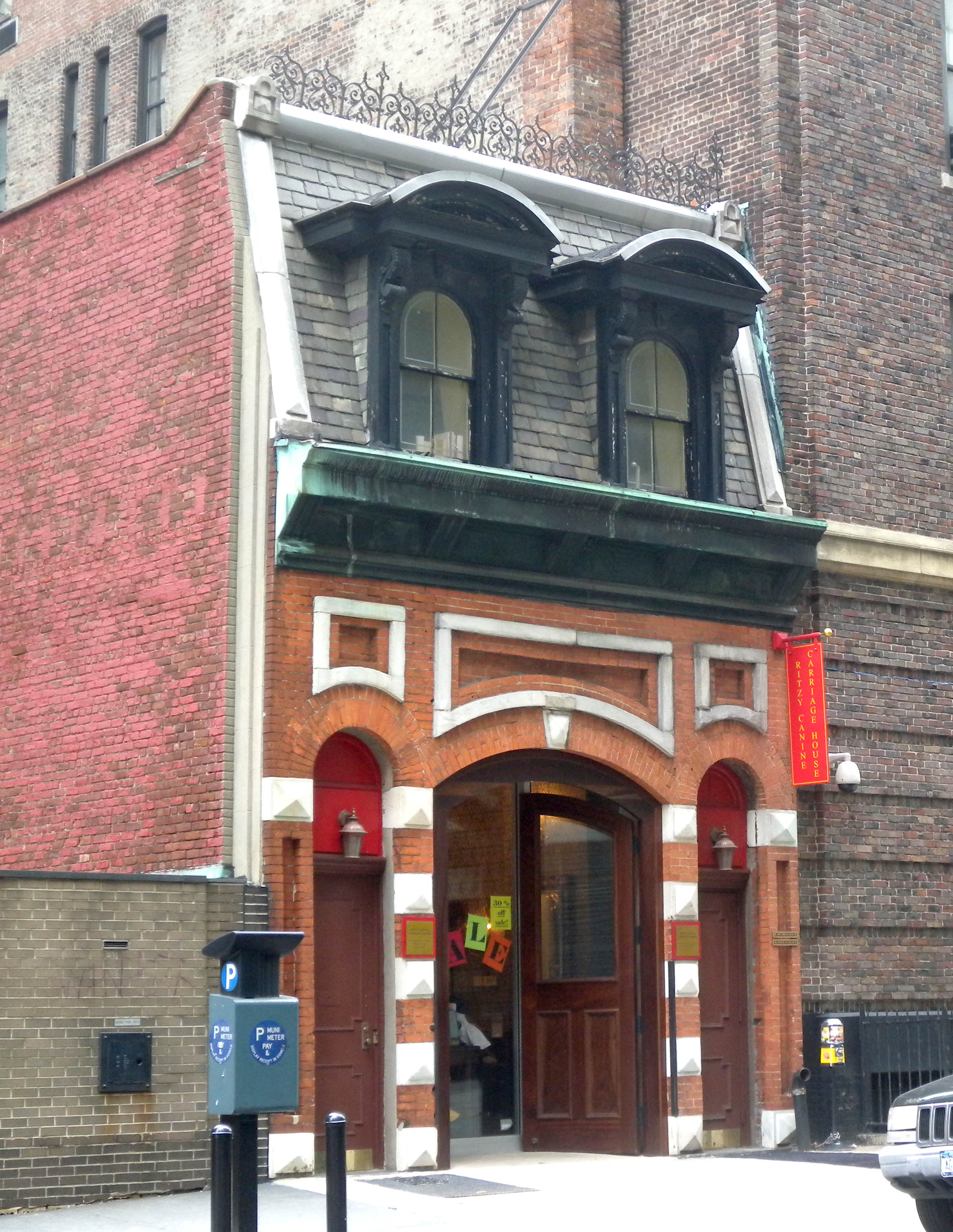 Looking southwest across East 40th Street at a former carriage house, now a dog grooming salon, on a cloudy afternoon. Built 1871; NYCLPC designation 1997.